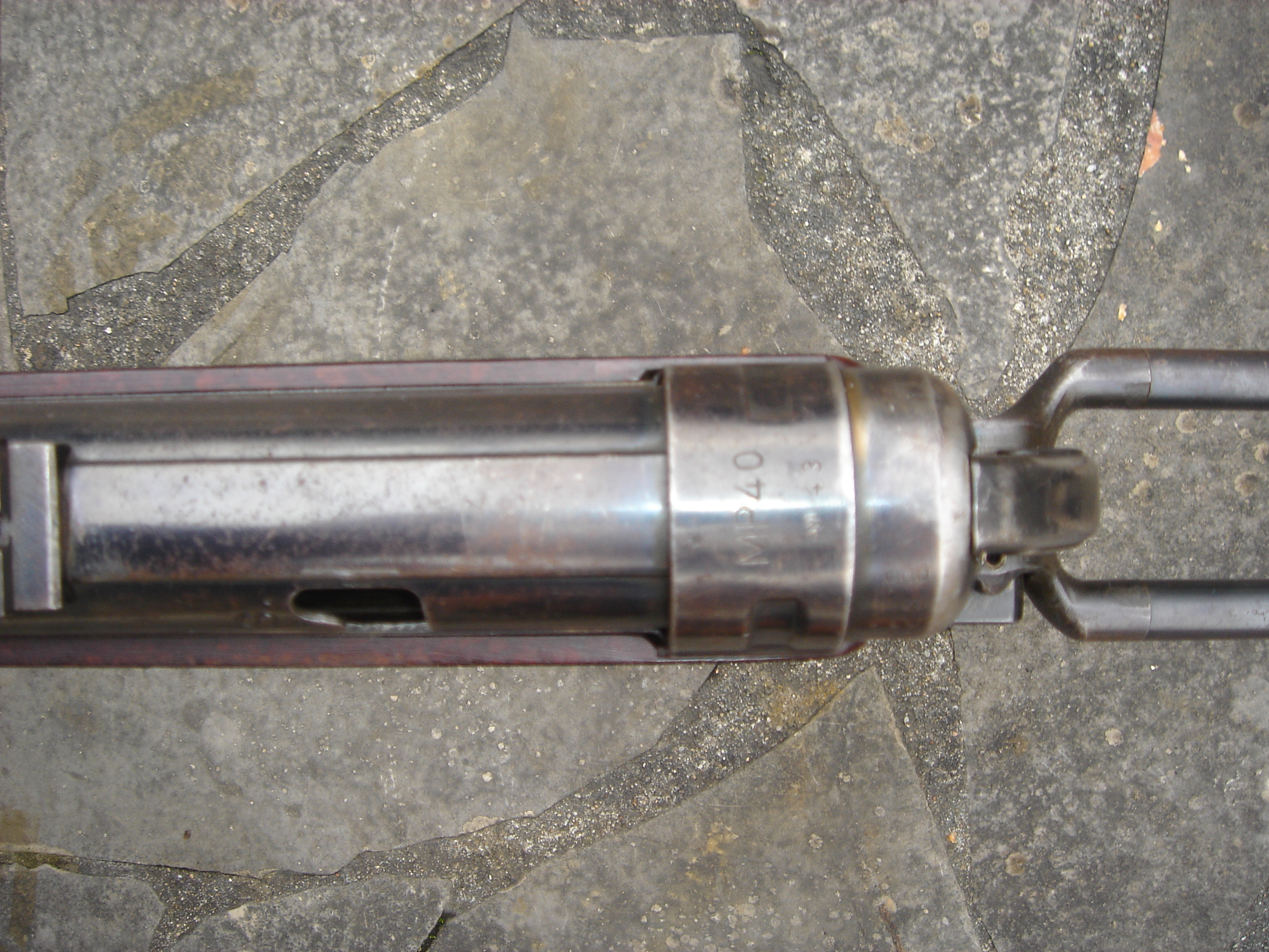 MP40 — Erma, 1943 manufacturing, receiver marking.